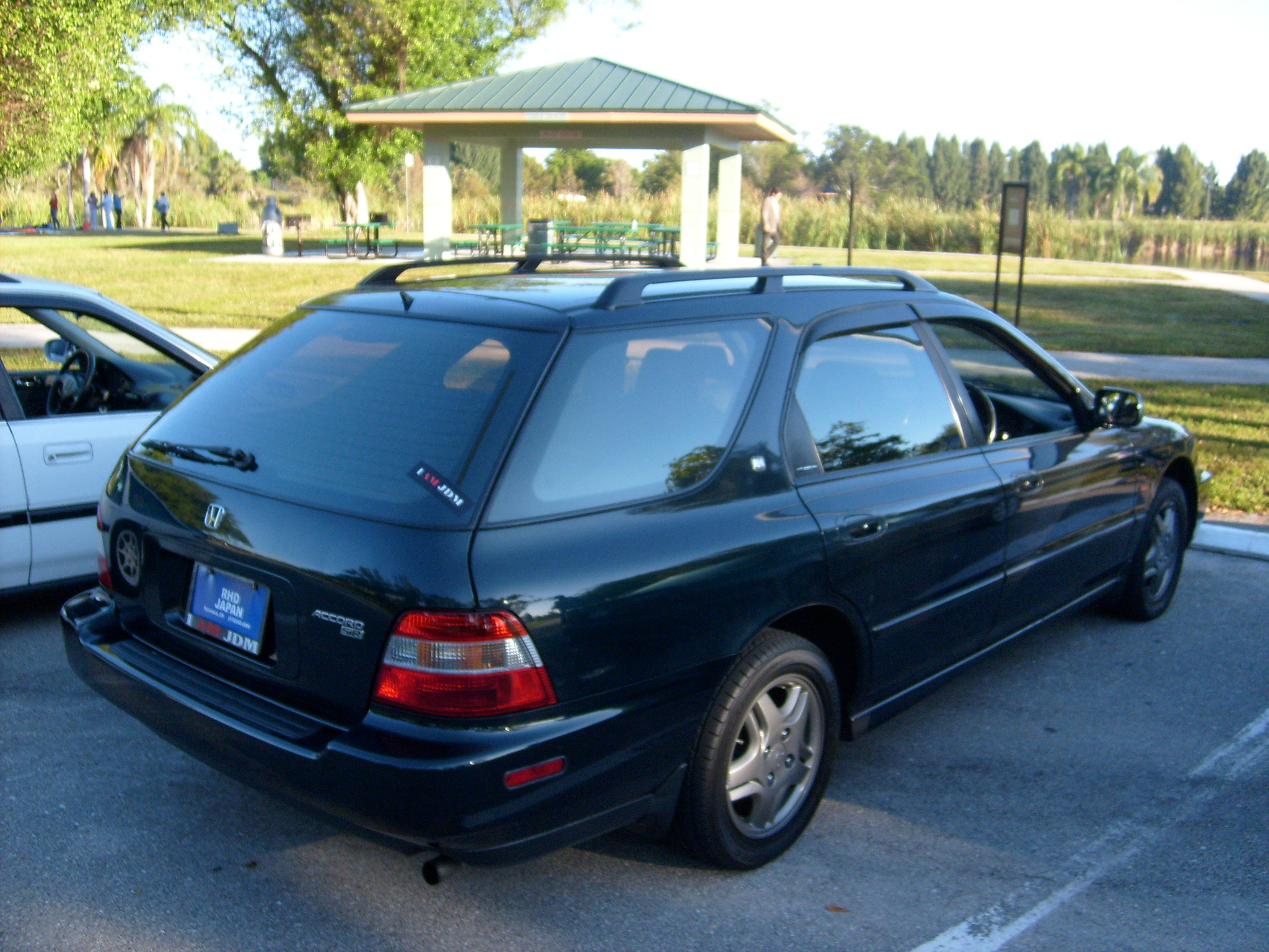 1996-1997 Accord SiR Wagon Rear (Imported Japanese Model)